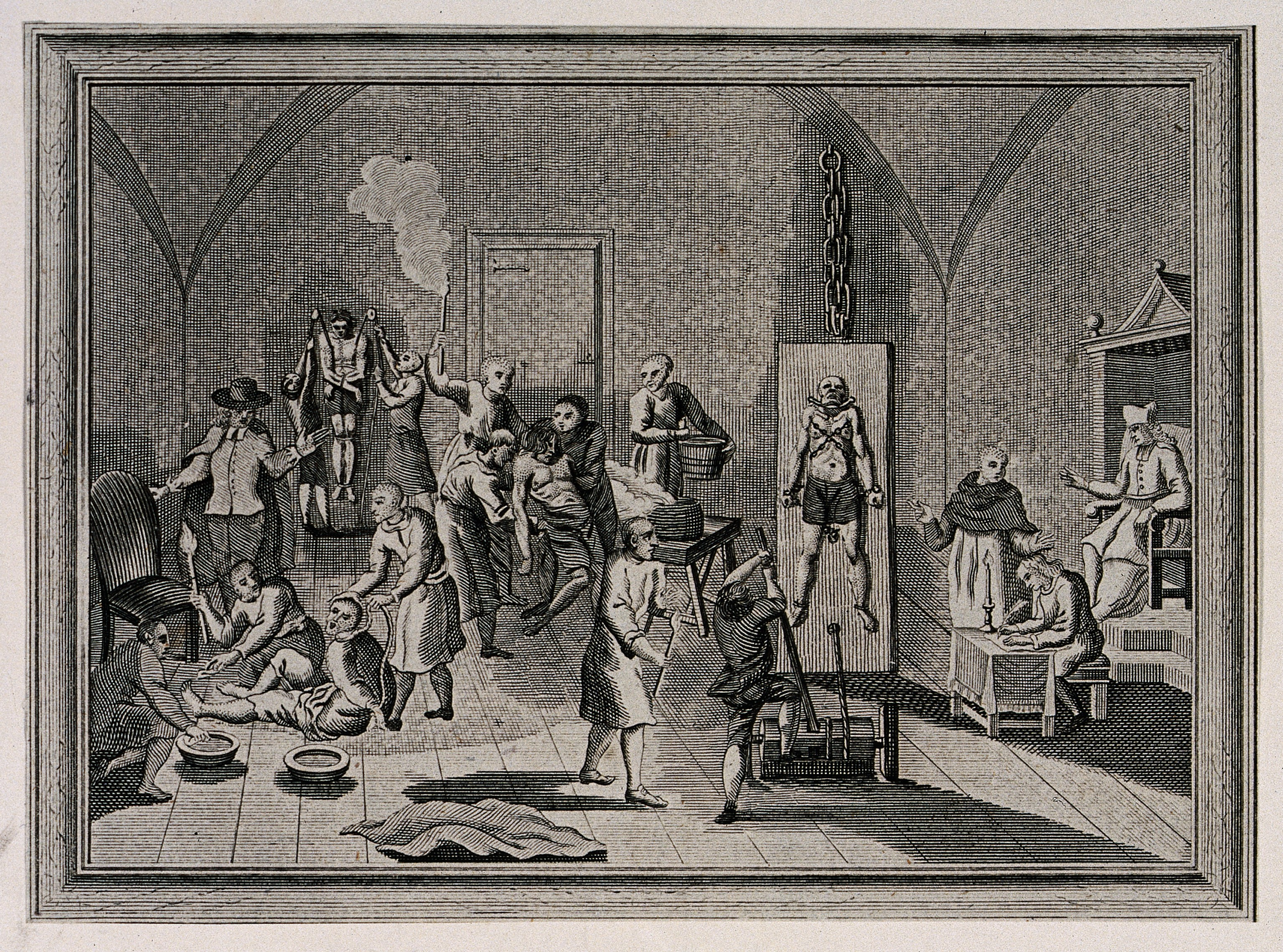 The inside of a jail of the Spanish Inquisition, with a priest supervising his scribe while men and women are suspended from pulleys, tortured on the rack or burnt with torches. Etching. Iconographic Collections